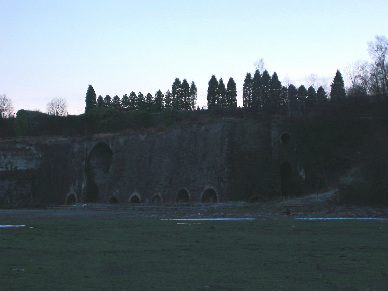 Merthyr Tydfil's abandoned Cyfarthfa Ironworks.